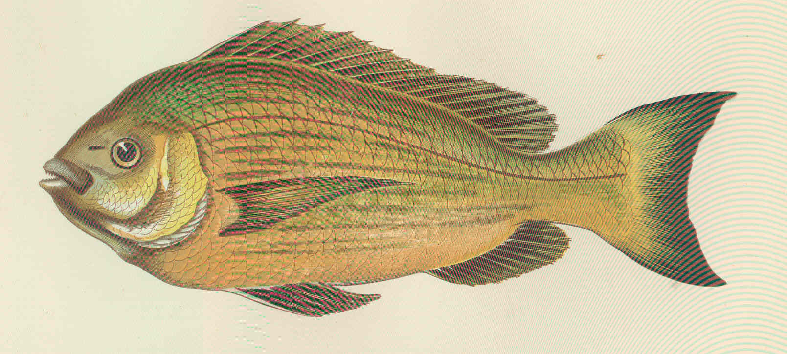 Old Wife Black Sea Bream (Spondyliosoma cantharus) Subject: Red porgy Tag: Fish